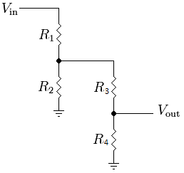 Serie of voltage divider (no simmetrical voltage division).